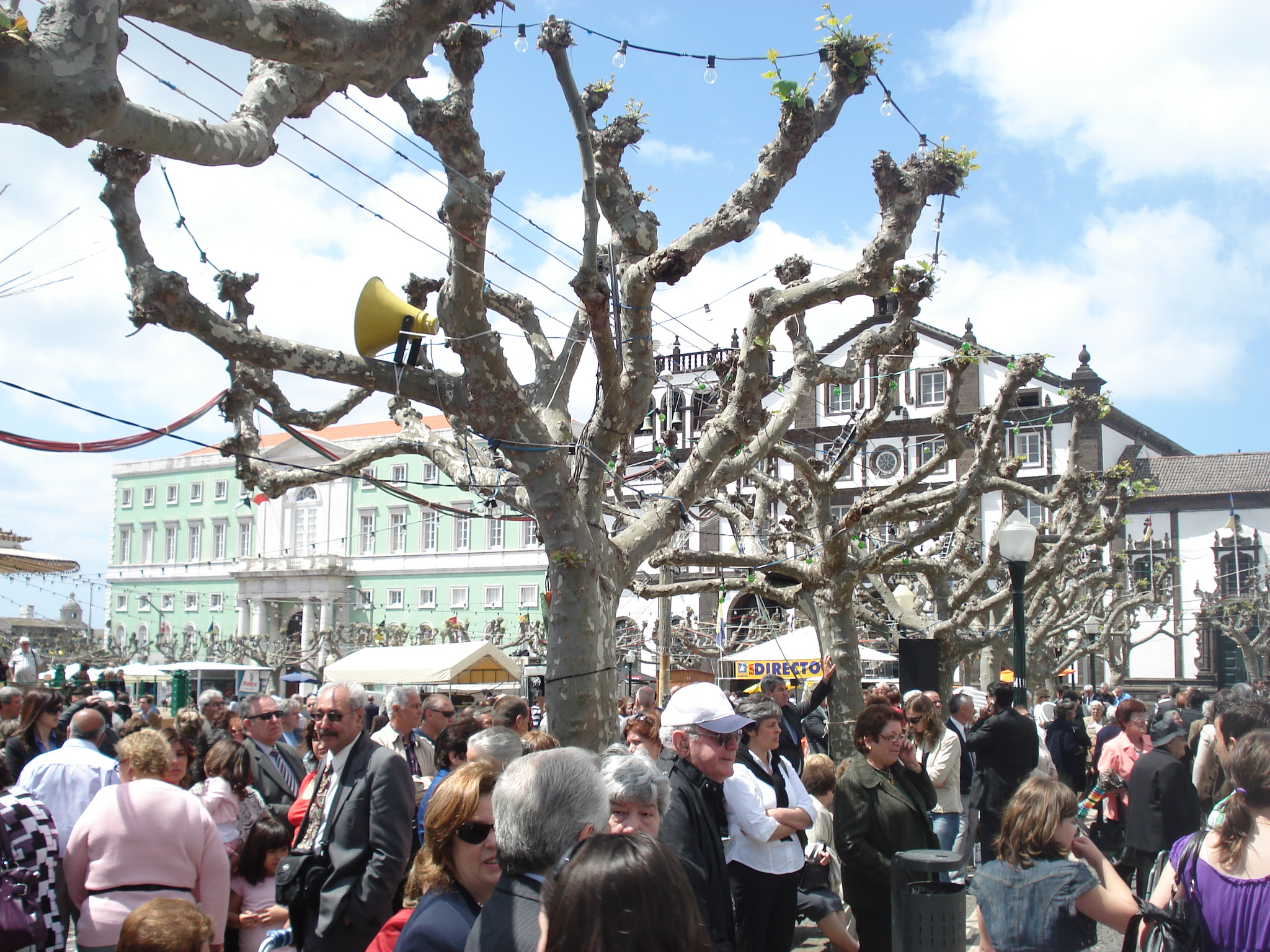 The Campo de São Francisco during the Festival of Senhor Santo Cristo, civil parish of São José, municipality of Ponta Delgada (Azores), Portugal